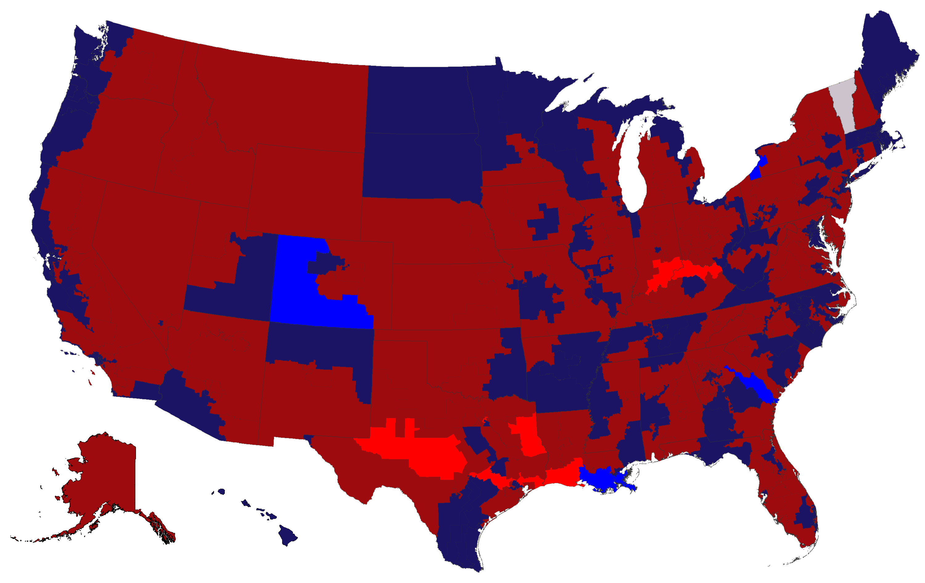 Results of the U.S. House elections 2004